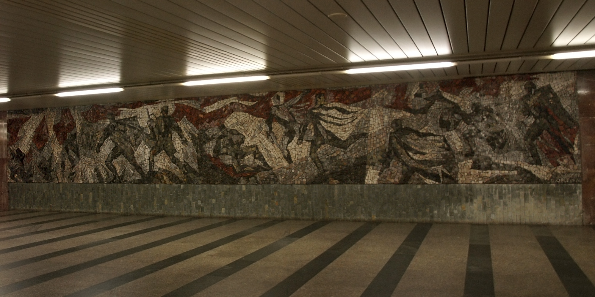 Mosaic representing the Battle of Sokolovo, locating in Prague Metro station Florenc; artists academics Oldřich Oplt and Sauro Ballardini.